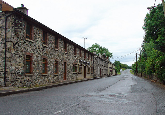 Shantully Inn, Crossdoney, Co. Cavan